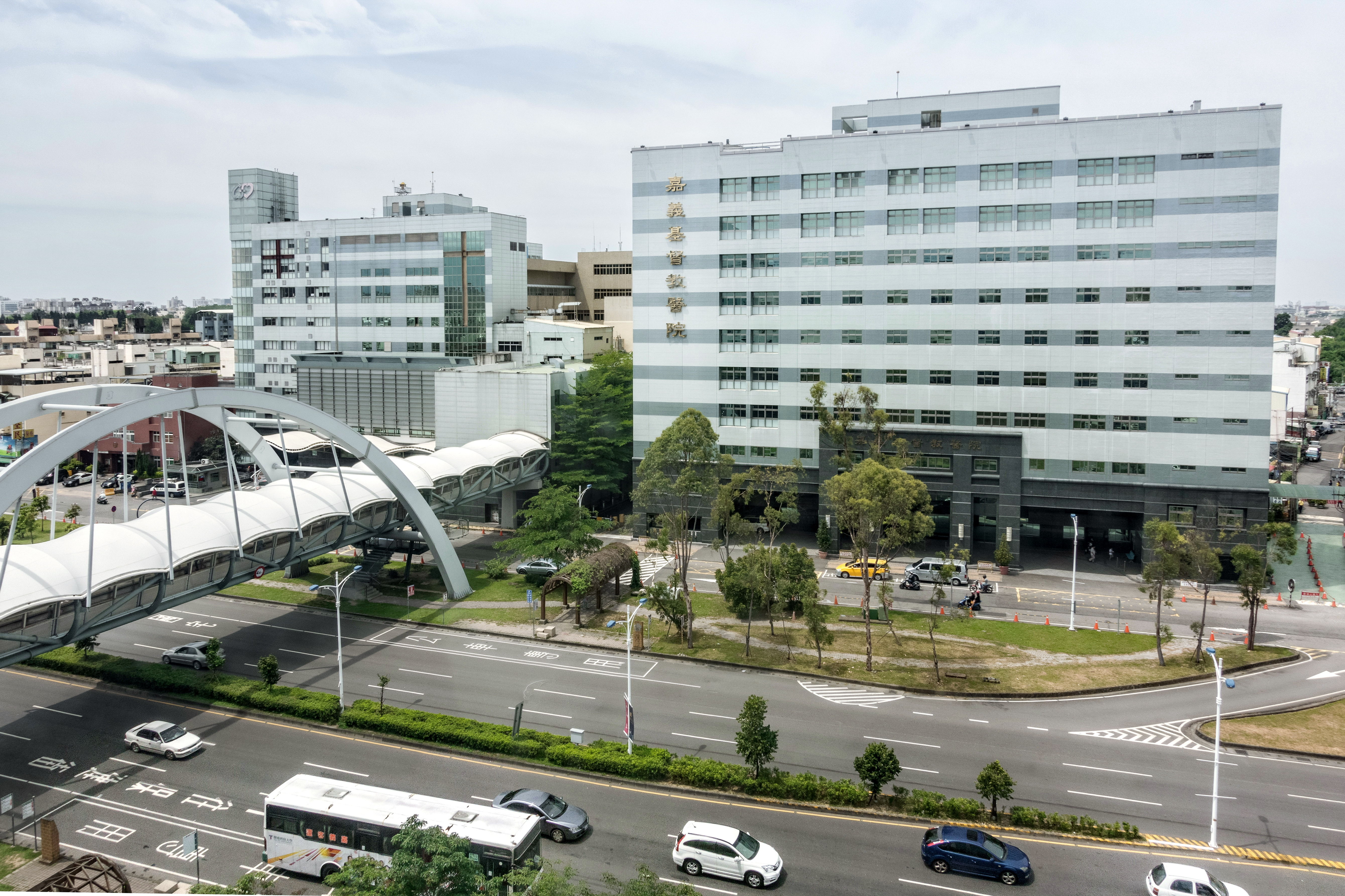 Inpatient building, Ditmanson Medical Foundation Chia-Yi Christian Hospital, Chiayi City, Taiwan.